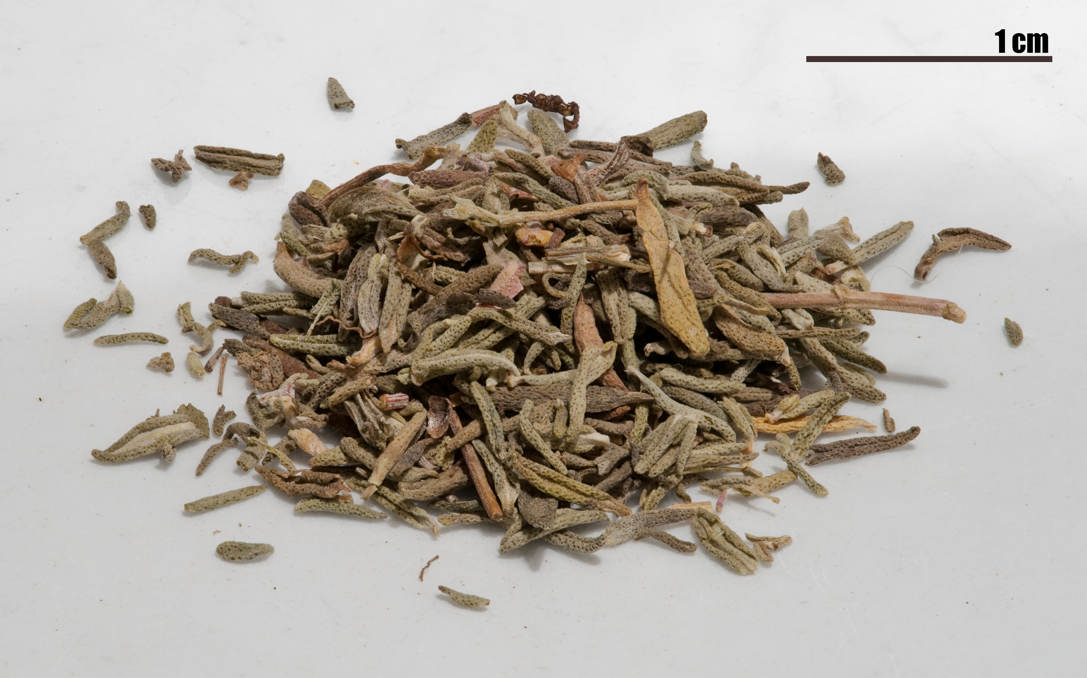 Dried thyme (Thymus vulgaris). This is a focus stacking of 12 images using Zerene Stacker.